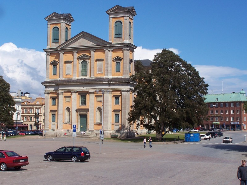 Fredrikskyrkan, Karlskrona stadsförsamling, Sweden